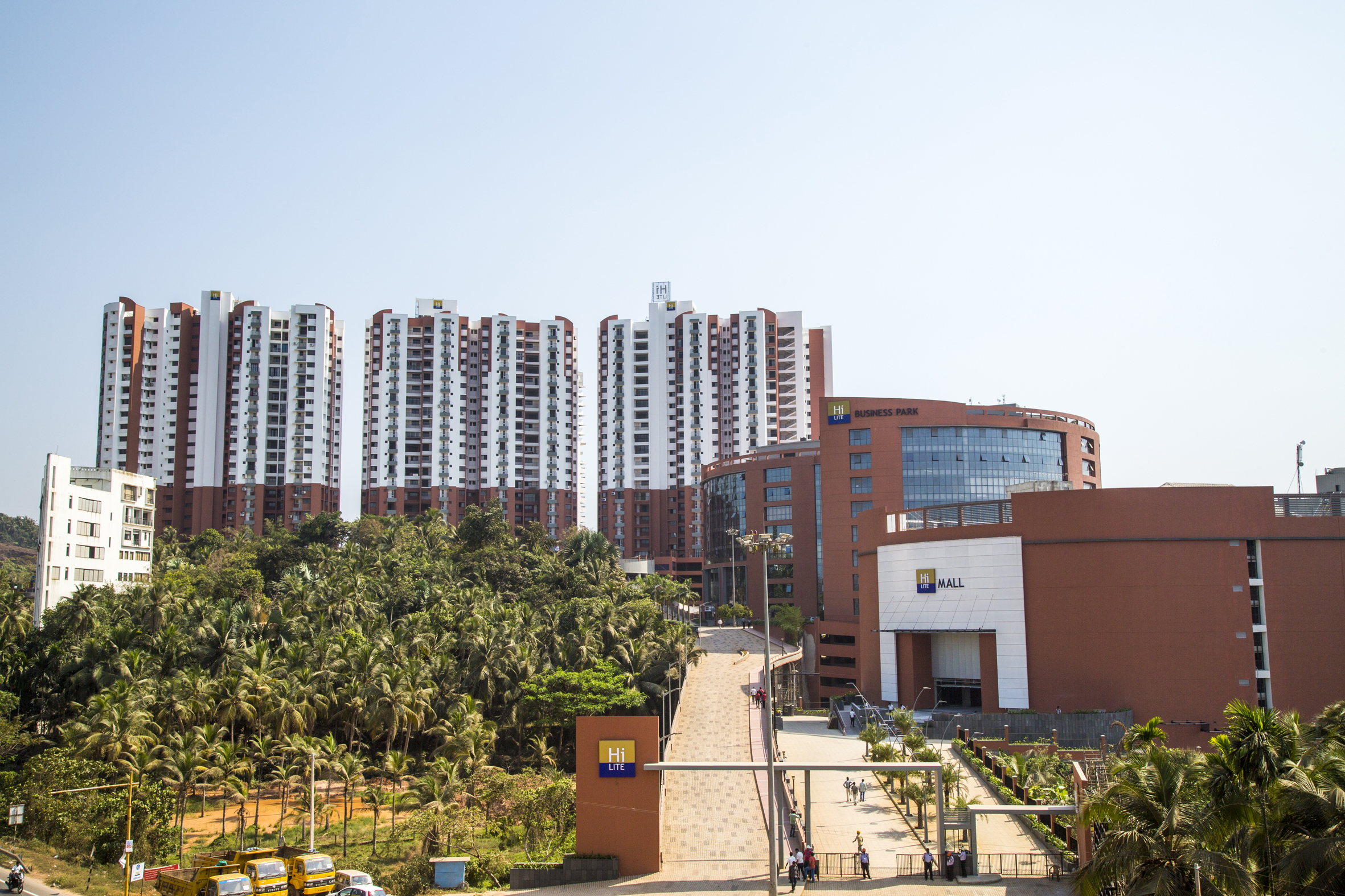 HiLITE City is the first and largest mixed-use development projects in Calicut. HiLITE City caters HiLITE Business Park (Office & Commercial Spaces for rent), HiLITE Mall and HiLITE Residential projects.